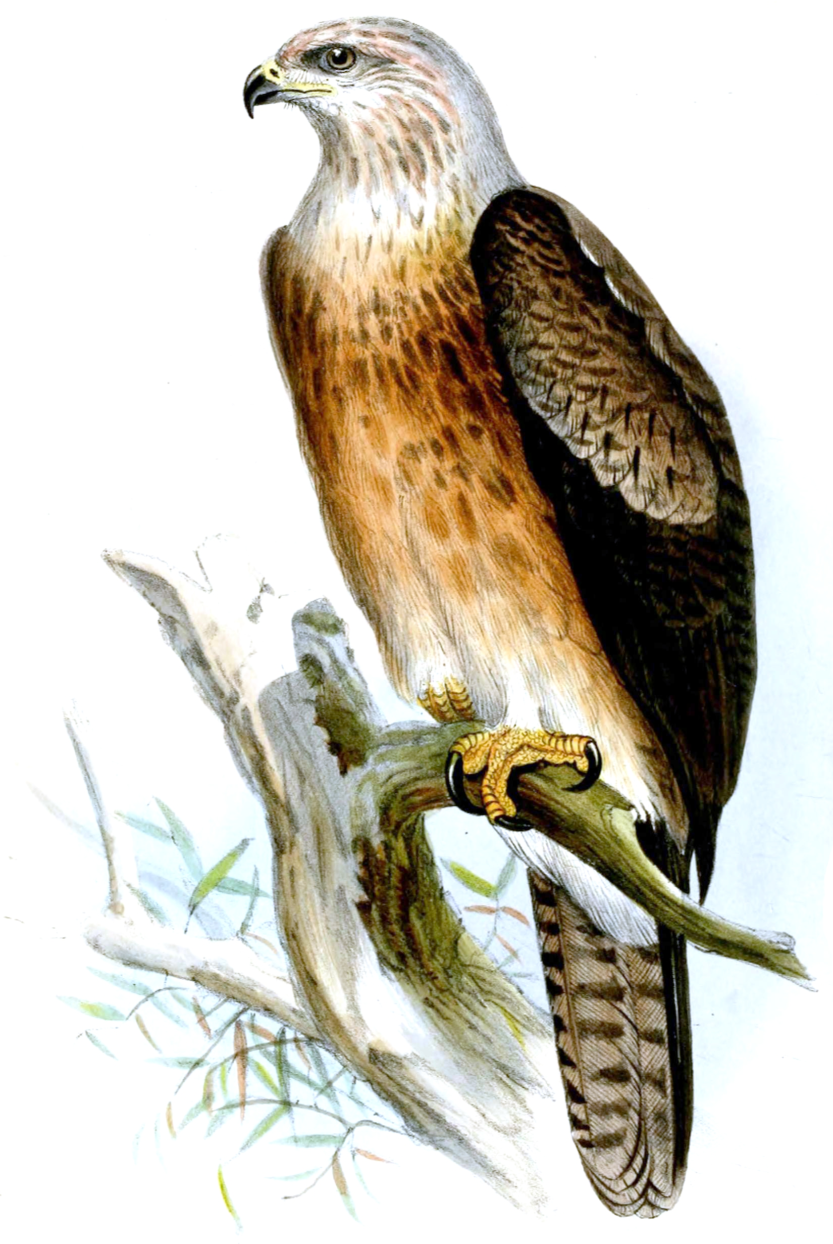 Aquila gurneyi. Published by M. & N. Hanhart.